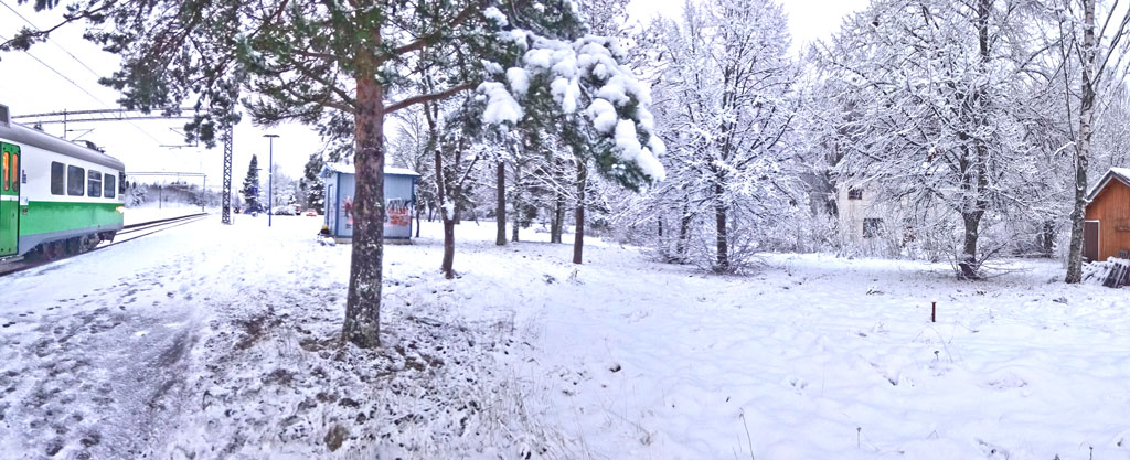 Electric commuter train arrives Myllykoski Station in Kouvola, Finland on winter 2017. Behind a pine tree in the front there is a digital control station and behind snowy bush there is a Vintage Inn Rauhala.